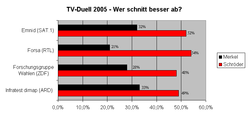 Results from several surveys about who performed better in the 2005 TV debate between then German chancellor Schröder and opposition leader Merkel